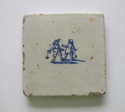 Tile with slinging children from Holland 17th centry.